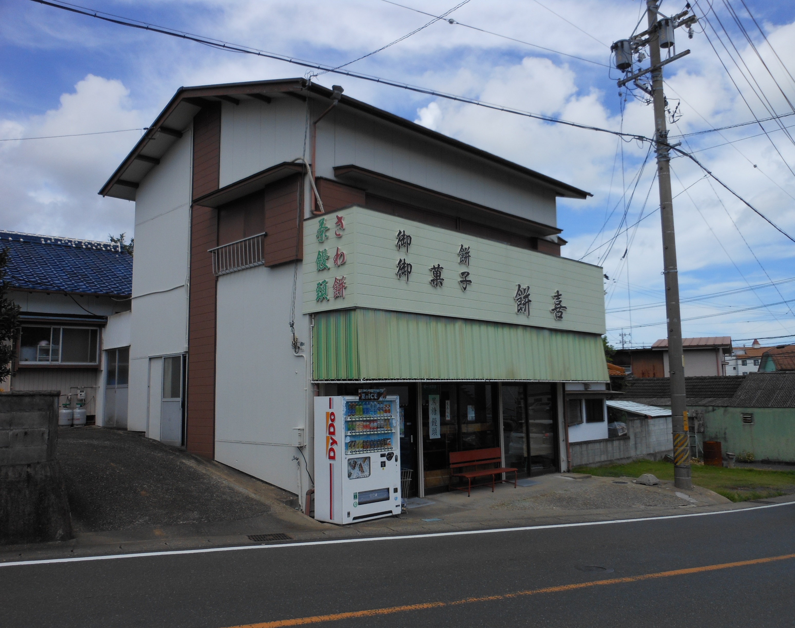 This is Mochiki Store, a rice cake shop in Shima, Mie, Japan. It is known as Sawamochi (local rice cake) shop.